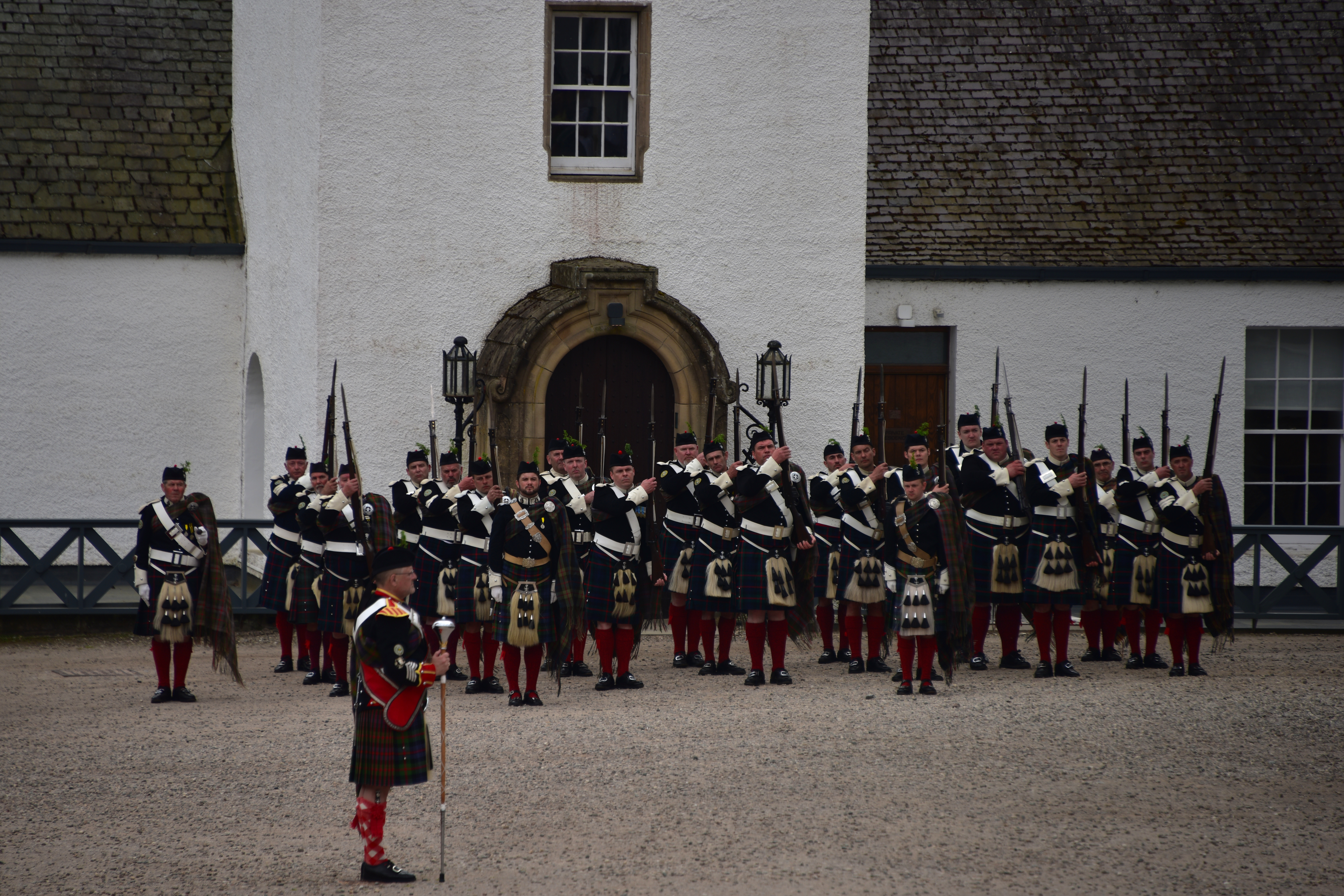 An annual ceremonial inspection at Blair Castle of "the last private army in Europe," the Atholl Highlanders.